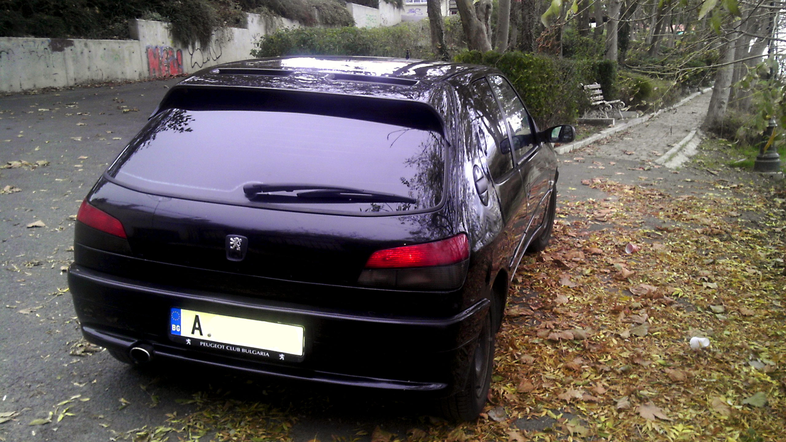 Rear view of Peugeot 306 Phase 3 XS HDi with original spoiler and tinted glass